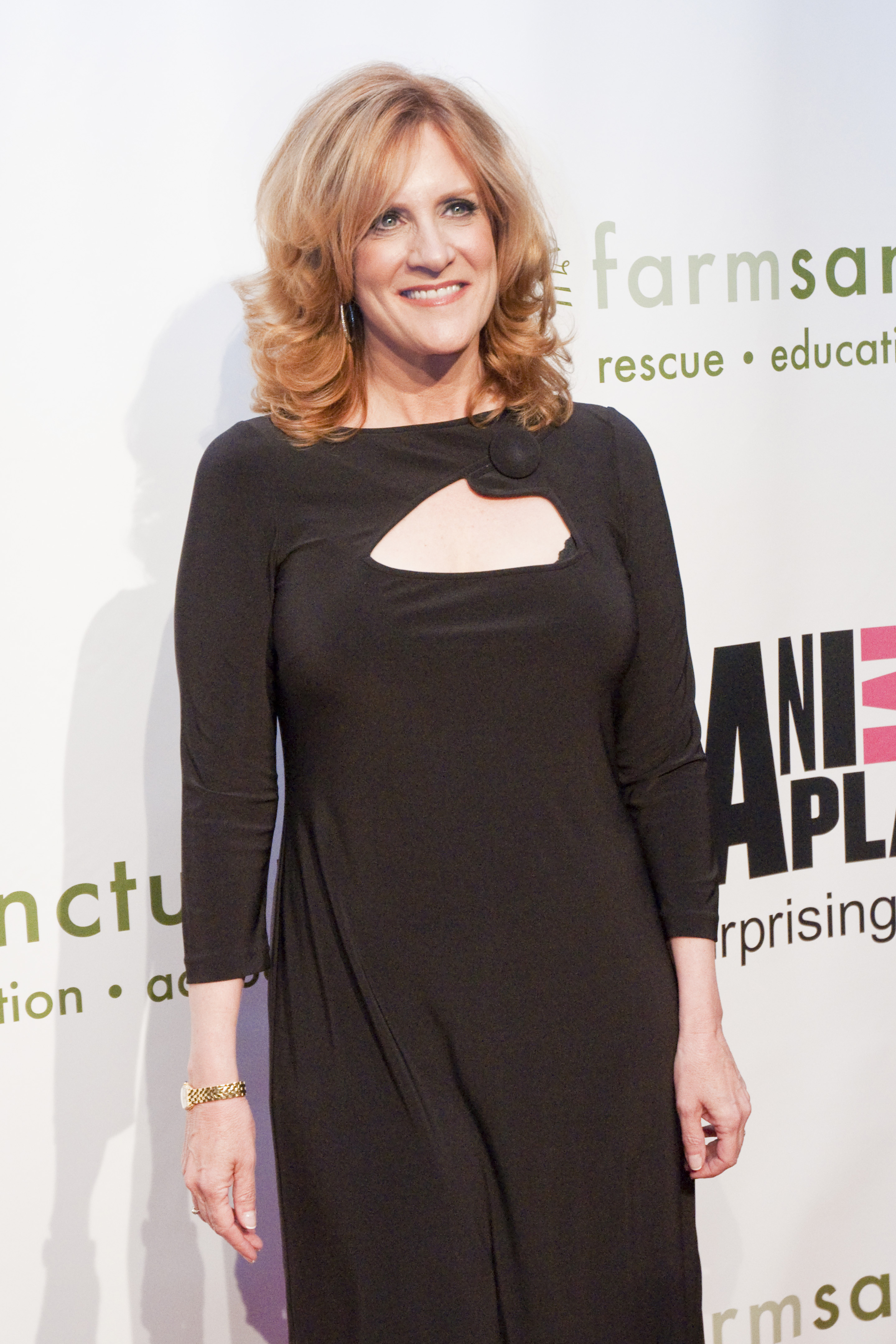 Farm Sanctuary 25th Anniversary Gala in New York City